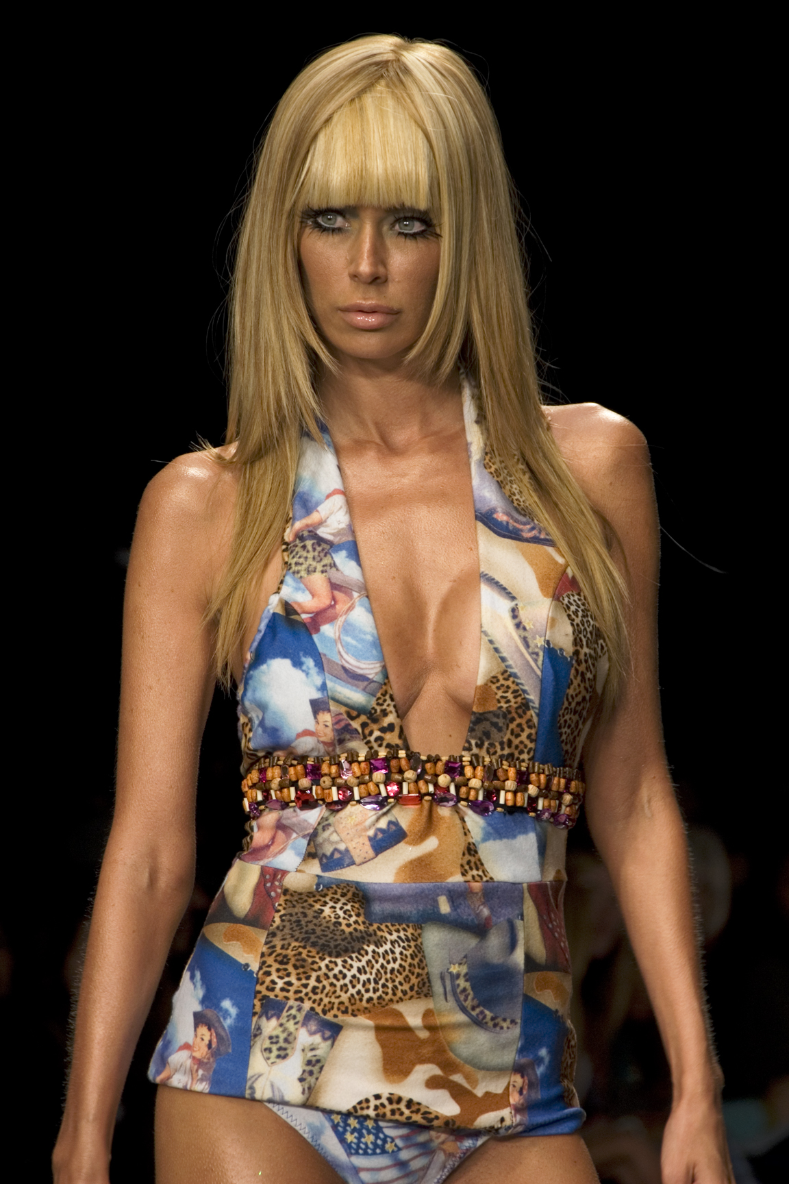 Jenna Jameson walking for Heatherette during Los Angeles Fashion Week at Smashbox Studios, Culver City, CA on October 15, 2007 - Photo by Glenn Francis of